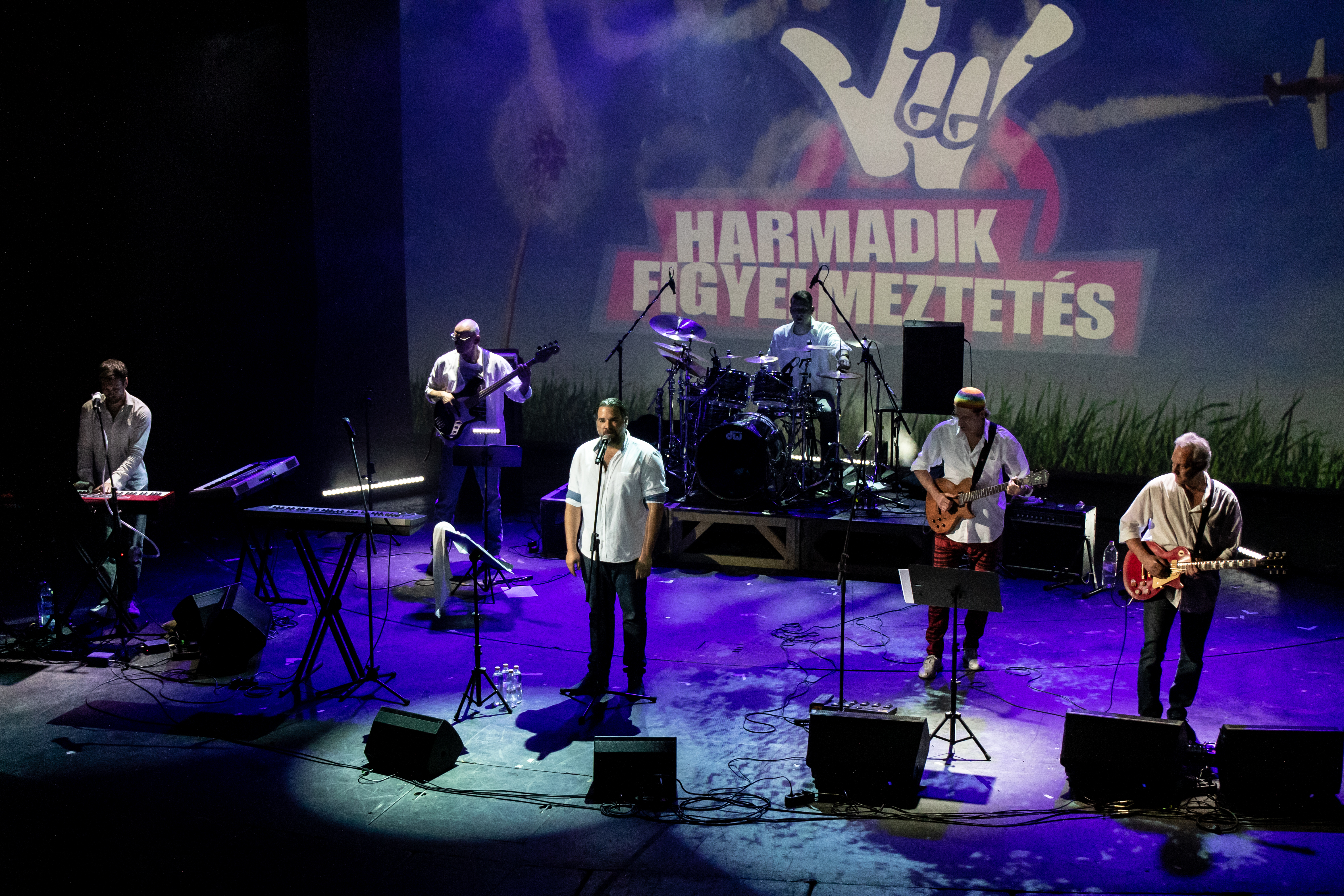 10 years of the Harmadik Figyelmeztetés! gala concert - The Harmadik Figyelmeztetés (Third Warning) actor band in the Magyar Theatre, 21 May 2019